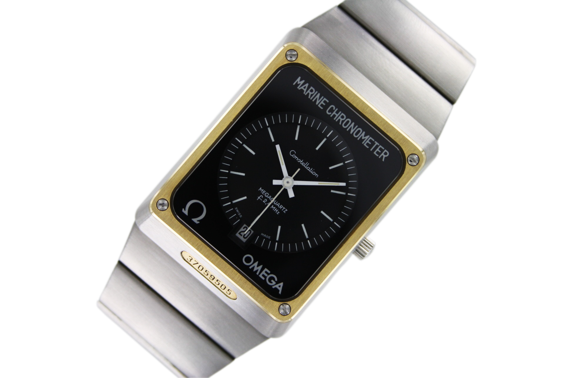 Omega Constellation Megaquartz F2.4 Marine Chronometer 1516